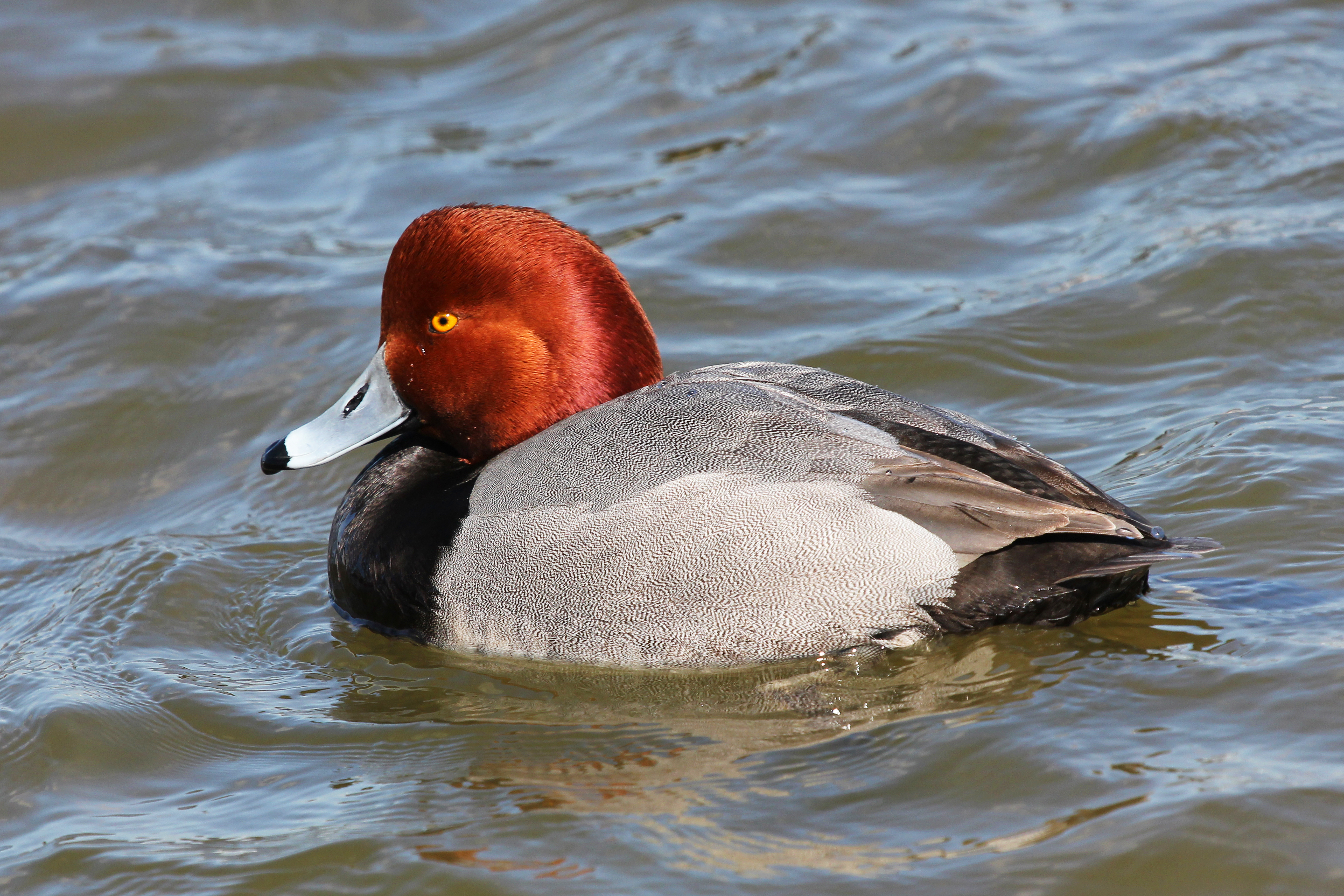 Redhead - Aythya americana, Oakley Street, Cambridge, Maryland.